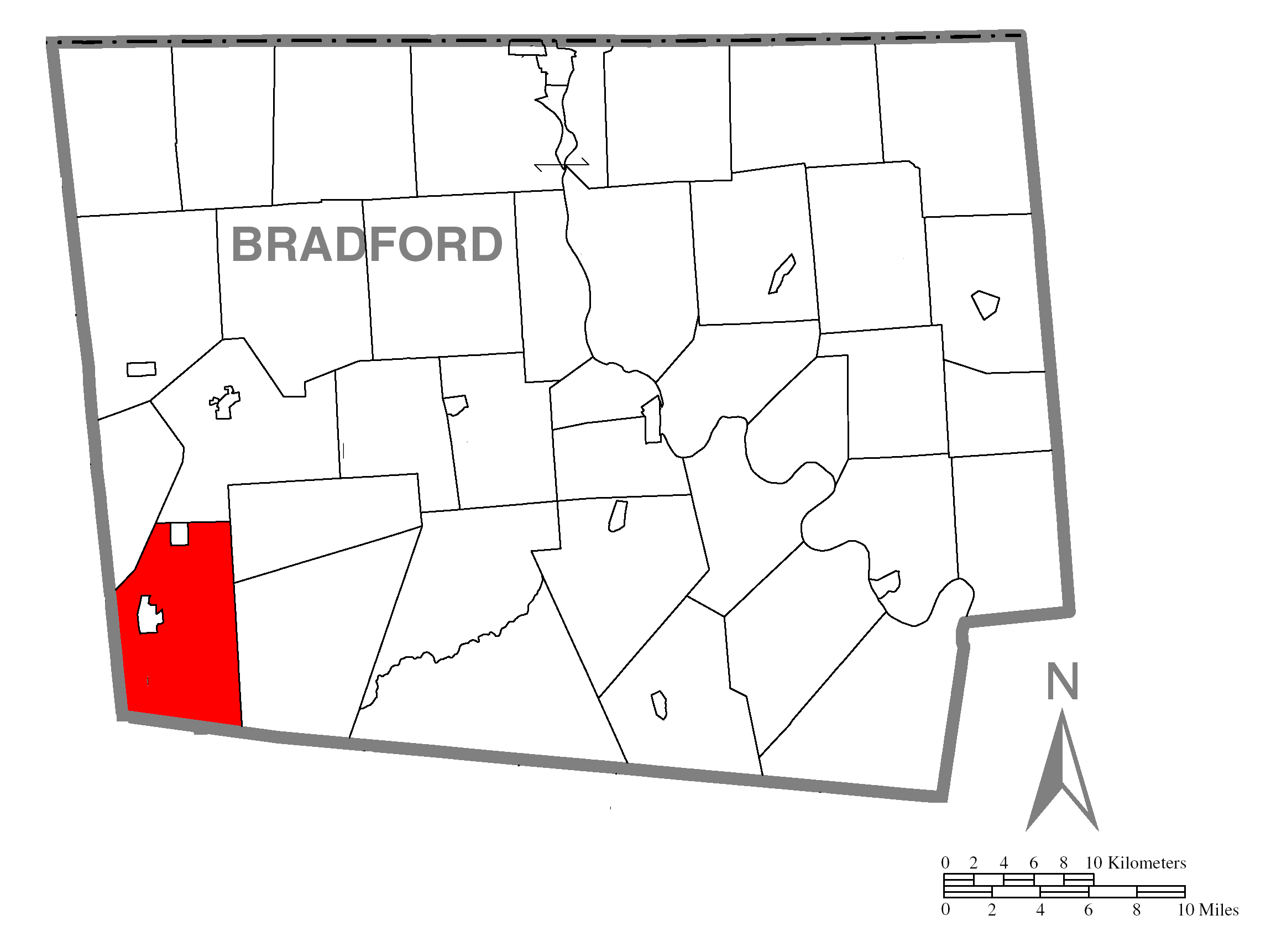 A map of Bradford County showing Canton Township, Pennsylvania (alternate) highlighted on the map.